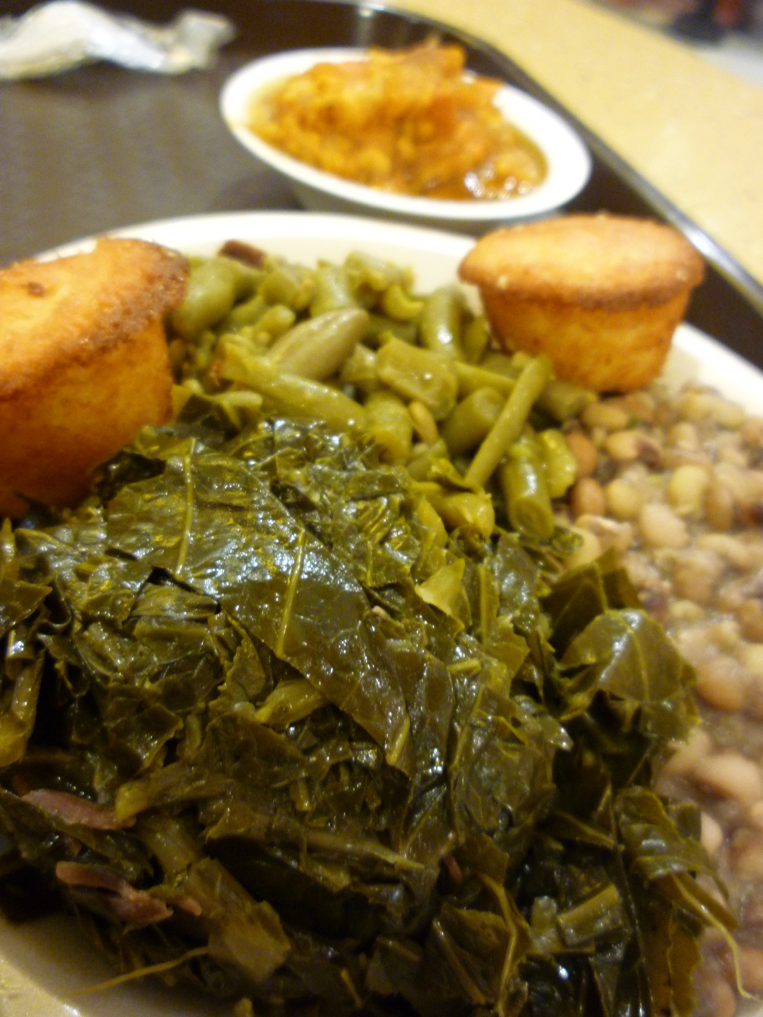 Atlanta Airport - Paschal's Southern Food